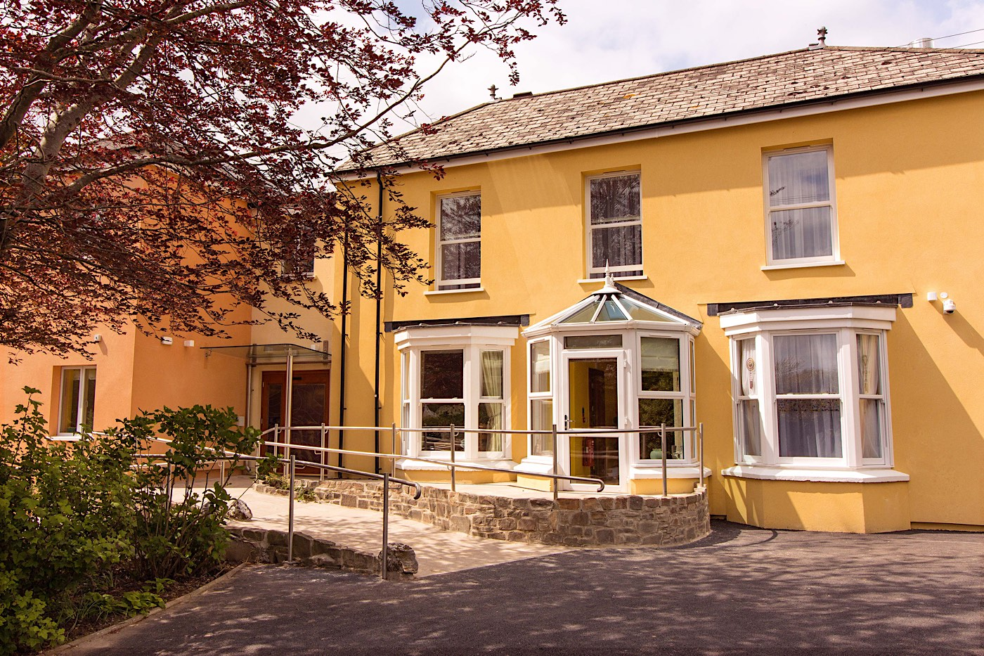 A picture of the exterior of Skanda Vale Hospice, Carmathenshire, United Kingdom.